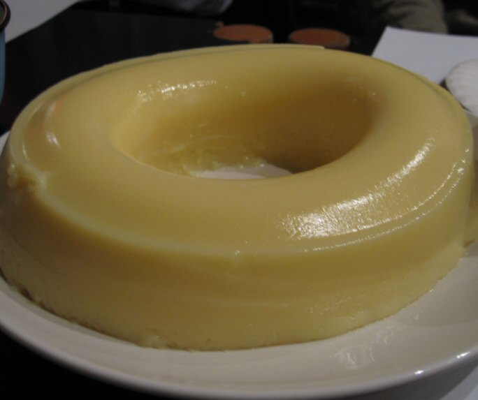 Pudding, made in Denmark